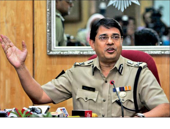 Picture of Soumen Mitra during press conference